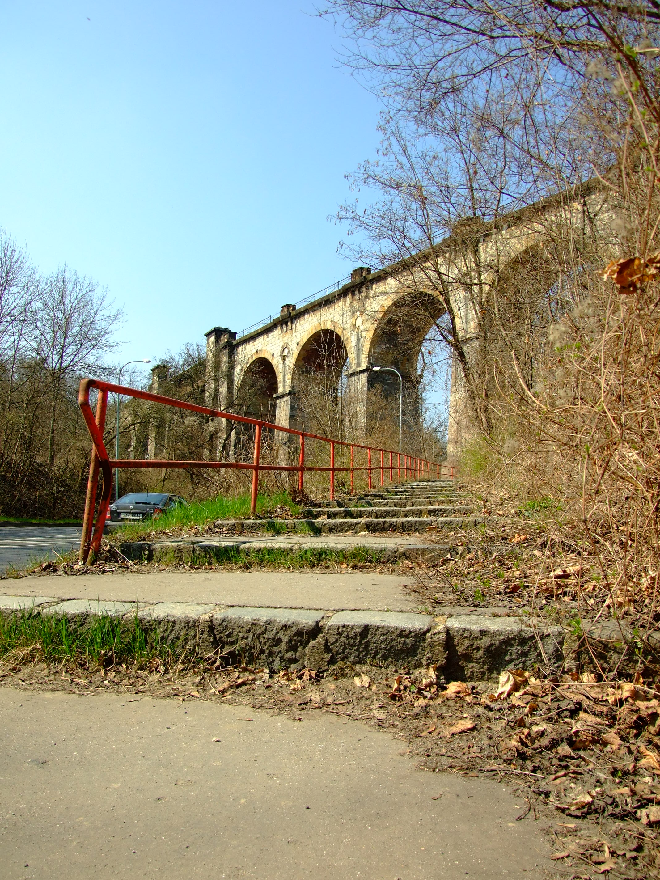 Prague, Prokopské údolí valley, rail bridge (mid 19th century)help